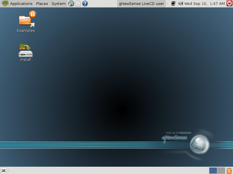 Screenshot of gNewSense 2.1